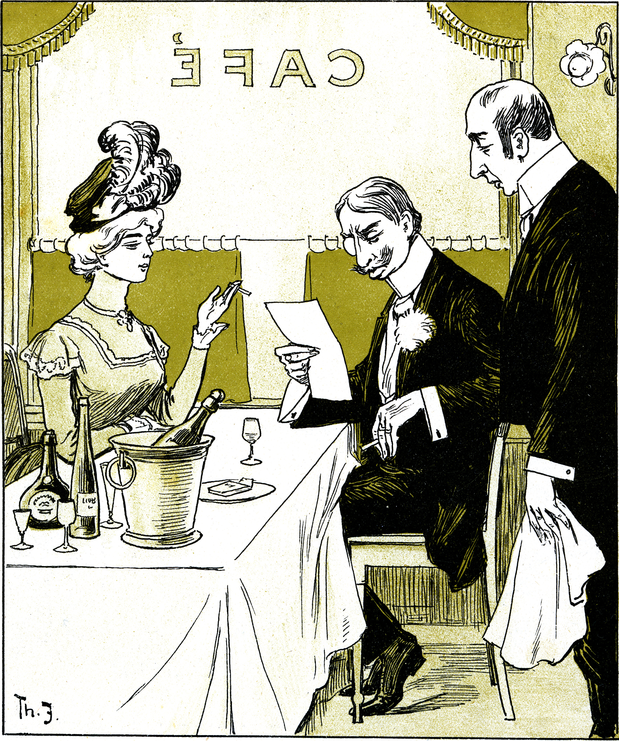 Old habit. - Listen, waiter, a bottle of Liebfraumilch ("Our Lady's milk", a type of wine) 40 danish kroner (about one month's salary) - it is expensive! - Sorry, but the lady always drinks the same when she dines here, and none of the gentlemen have ever complained about the price.